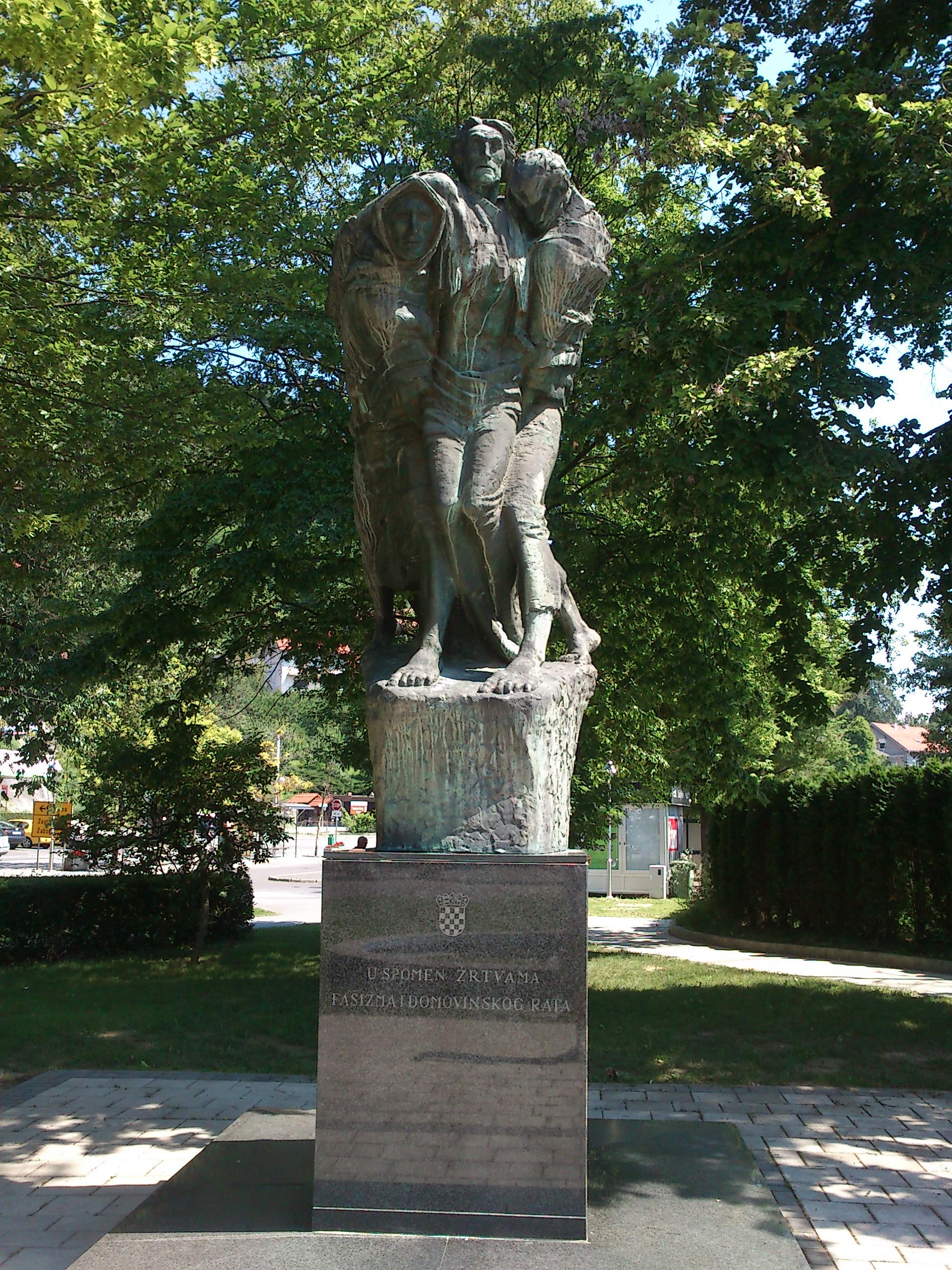 Monument to the victims of fascism and Homeland war, Krapinske Toplice. Designed by Antun Augustinčić, built in 1973.